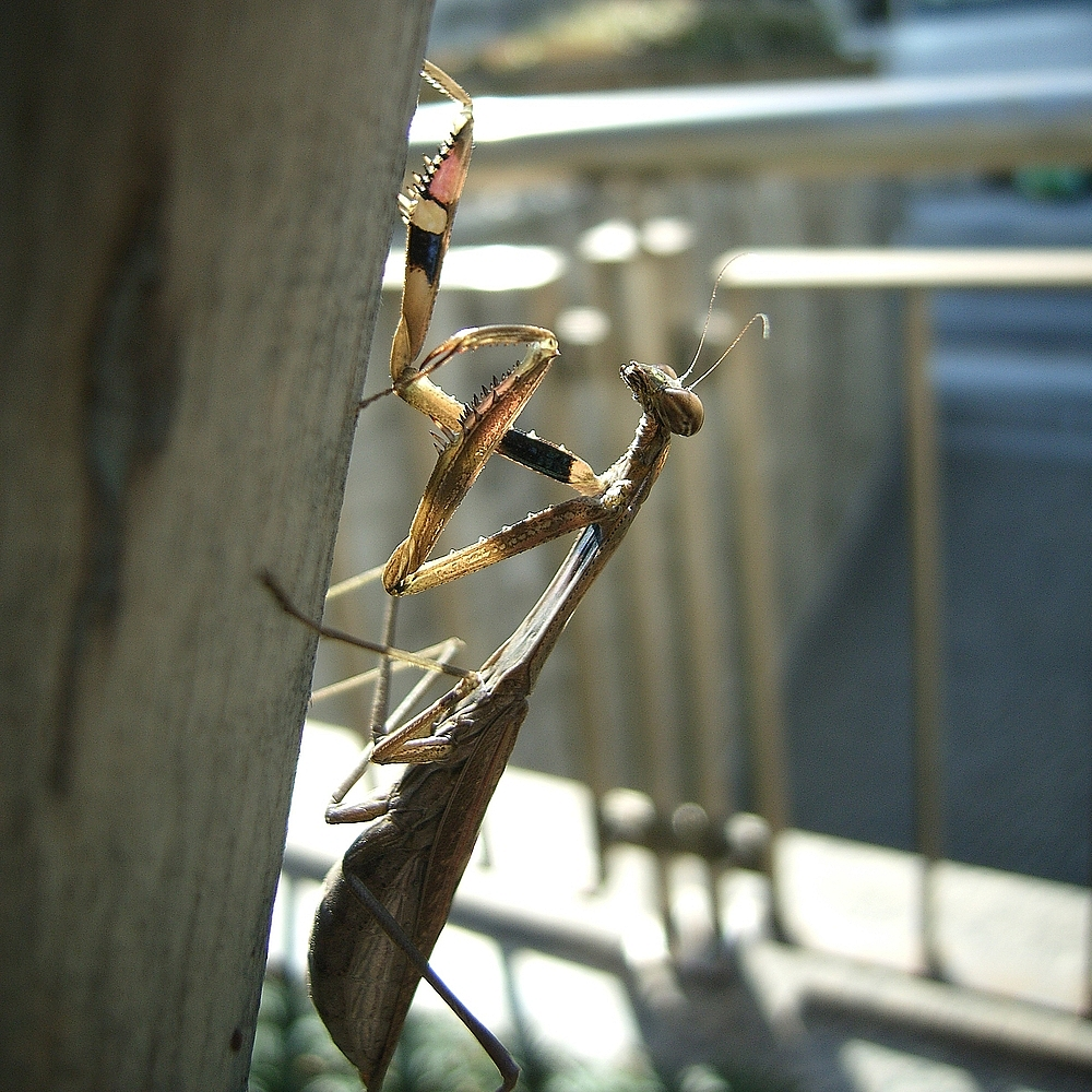 Praying mantisLocation Chuou-ku, KOBE, Japan